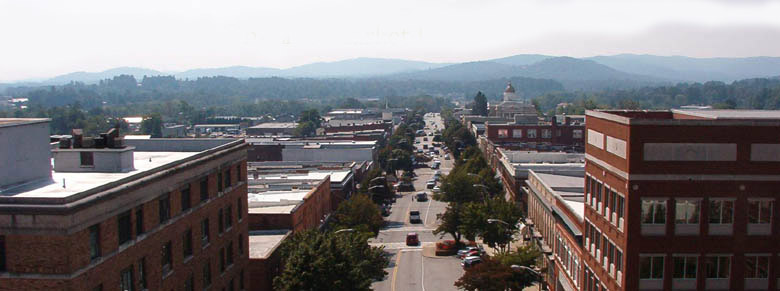 A View of Main Street.